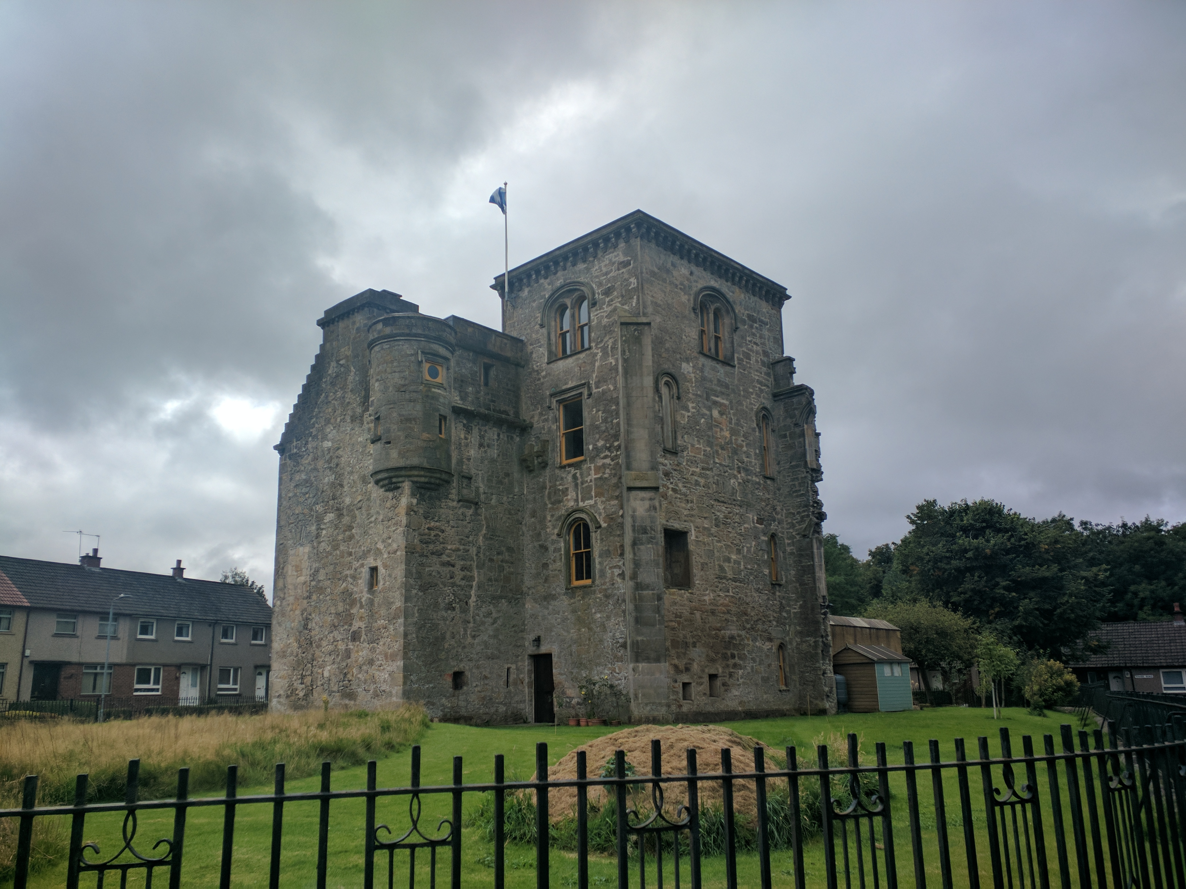 Johnstone Castle from behind